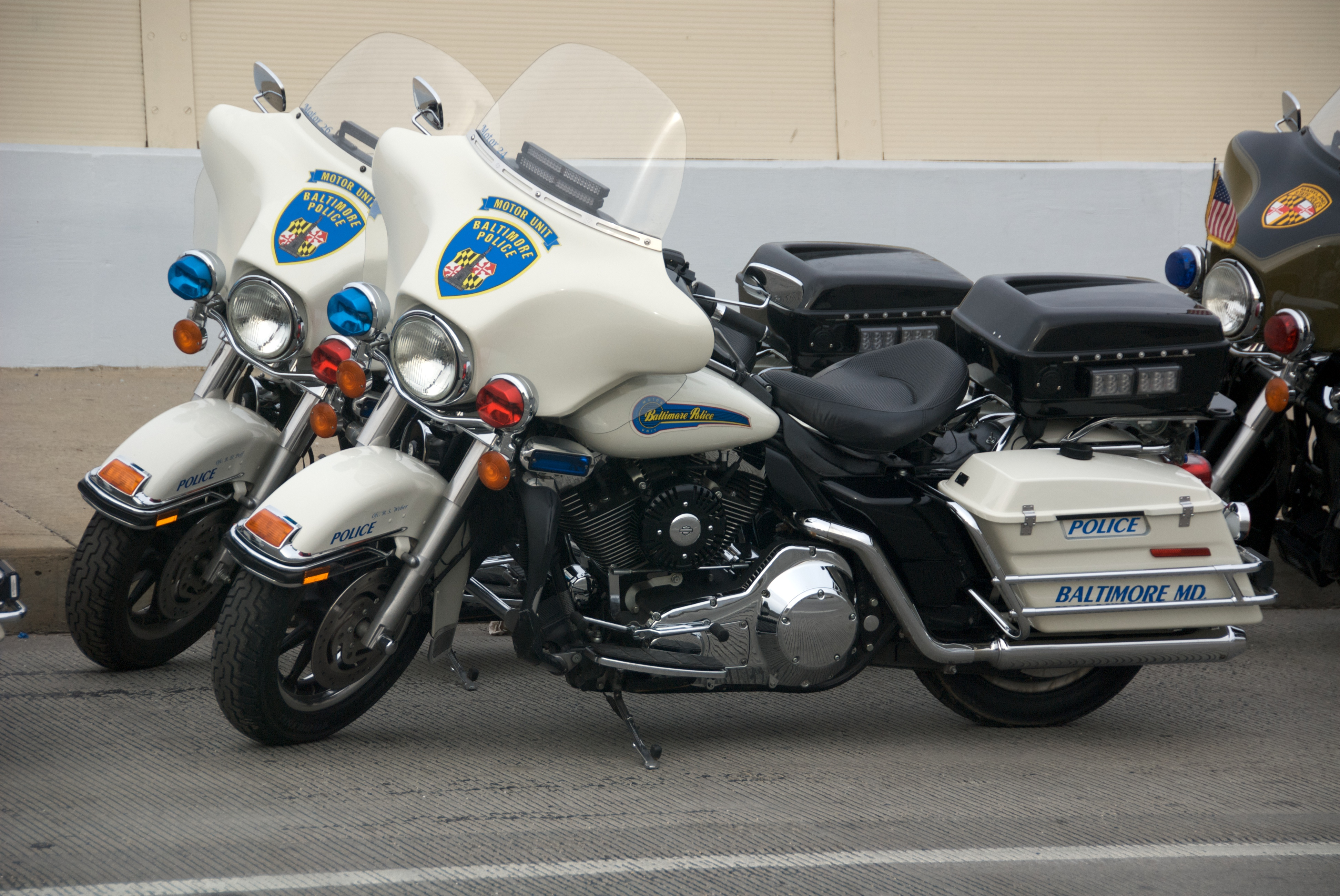 Officers gearing up for Barrack Obama's motorcade